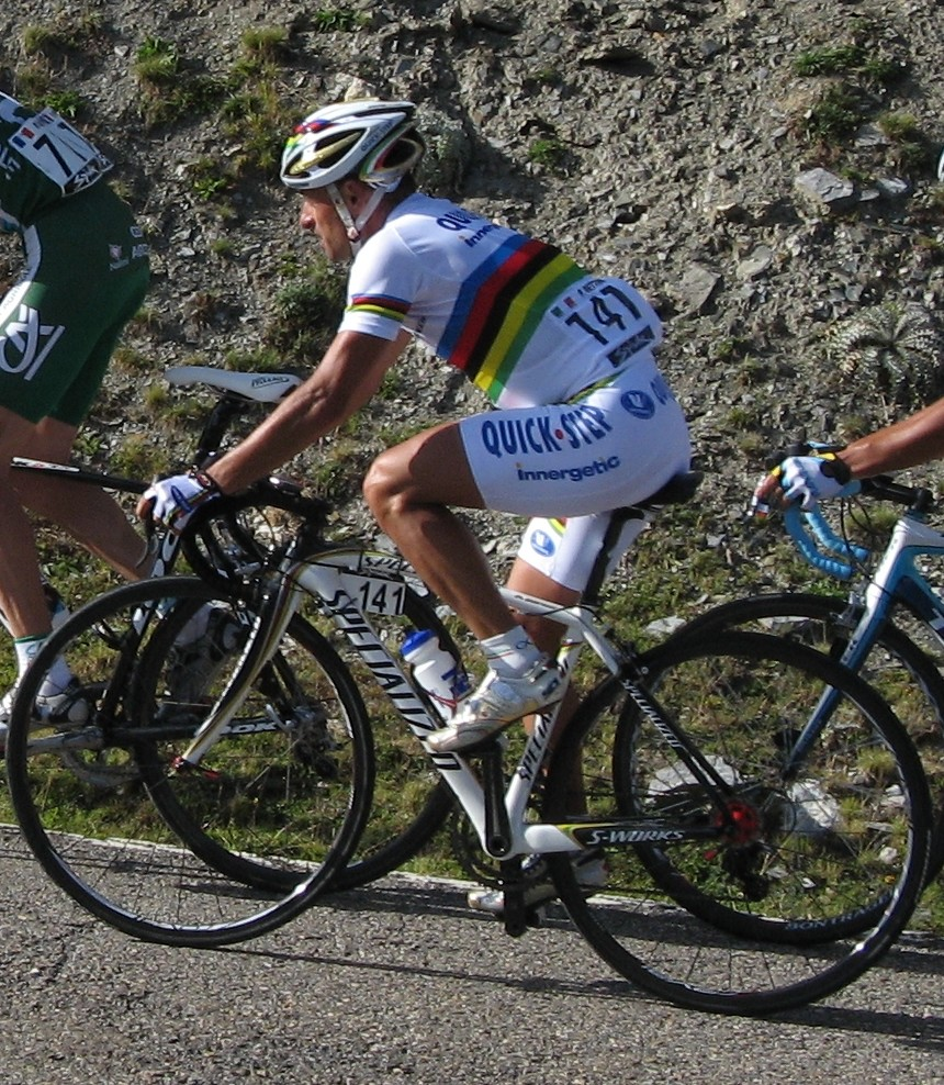 Paolo Bettini, 2008 Vuelta a España, 8th stage, Port de la Bonaigua, Spain.